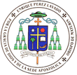 Coat of arms of Monsignor Enrique Perez Lavado bishop of the Diocese of Maturin